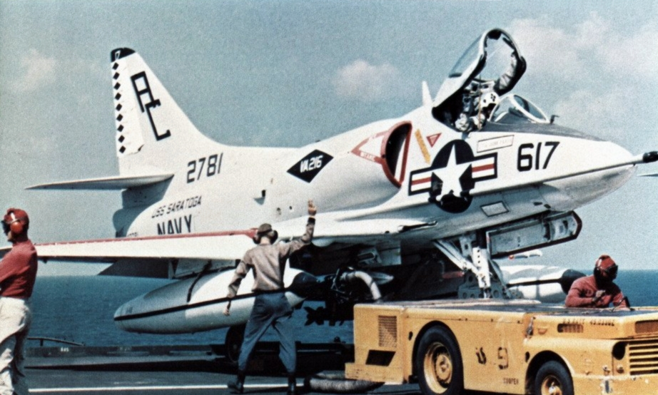 A U.S. Navy Douglas A-4B Skyhawk (BuNo 142781) from Attack Squadron VA-216 "Black Diamonds" aboard the aircraft carrier USS Saratoga (CVA-60). VA-216 was assigned to Carrier Air Wing 3 (CVW-3) for a deployment to the Mediterranean Sea from 2 May to 6 December 1967.